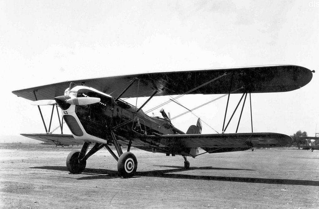 Curtiss A-3B No. 63 (S/N 30-25) of the 13th Attack Squadron, 3rd Attack Group, taken May 16, 1933. (U.S. Air Force photo)